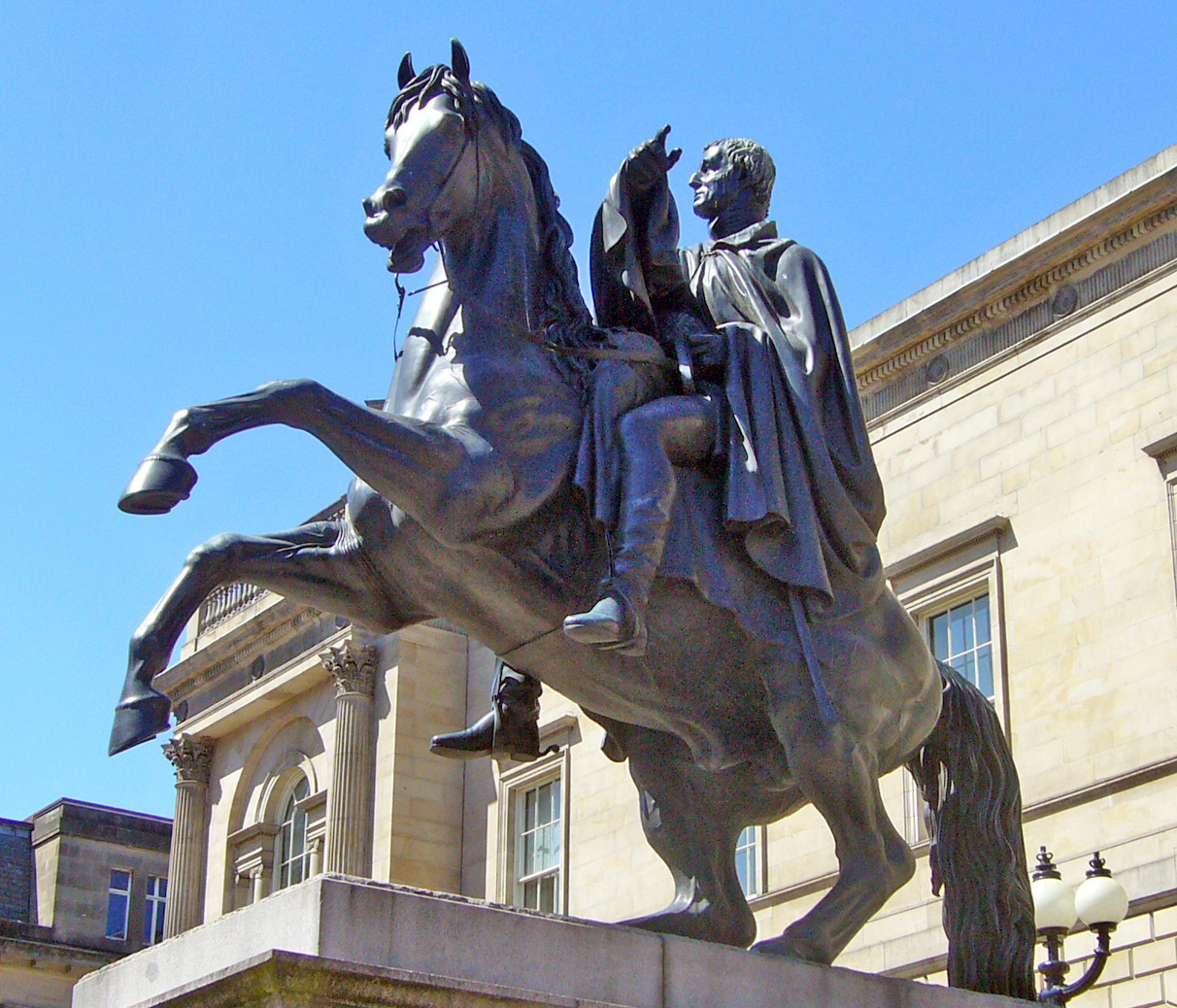 Duke of Wellington statue, Princes Street Edinburgh